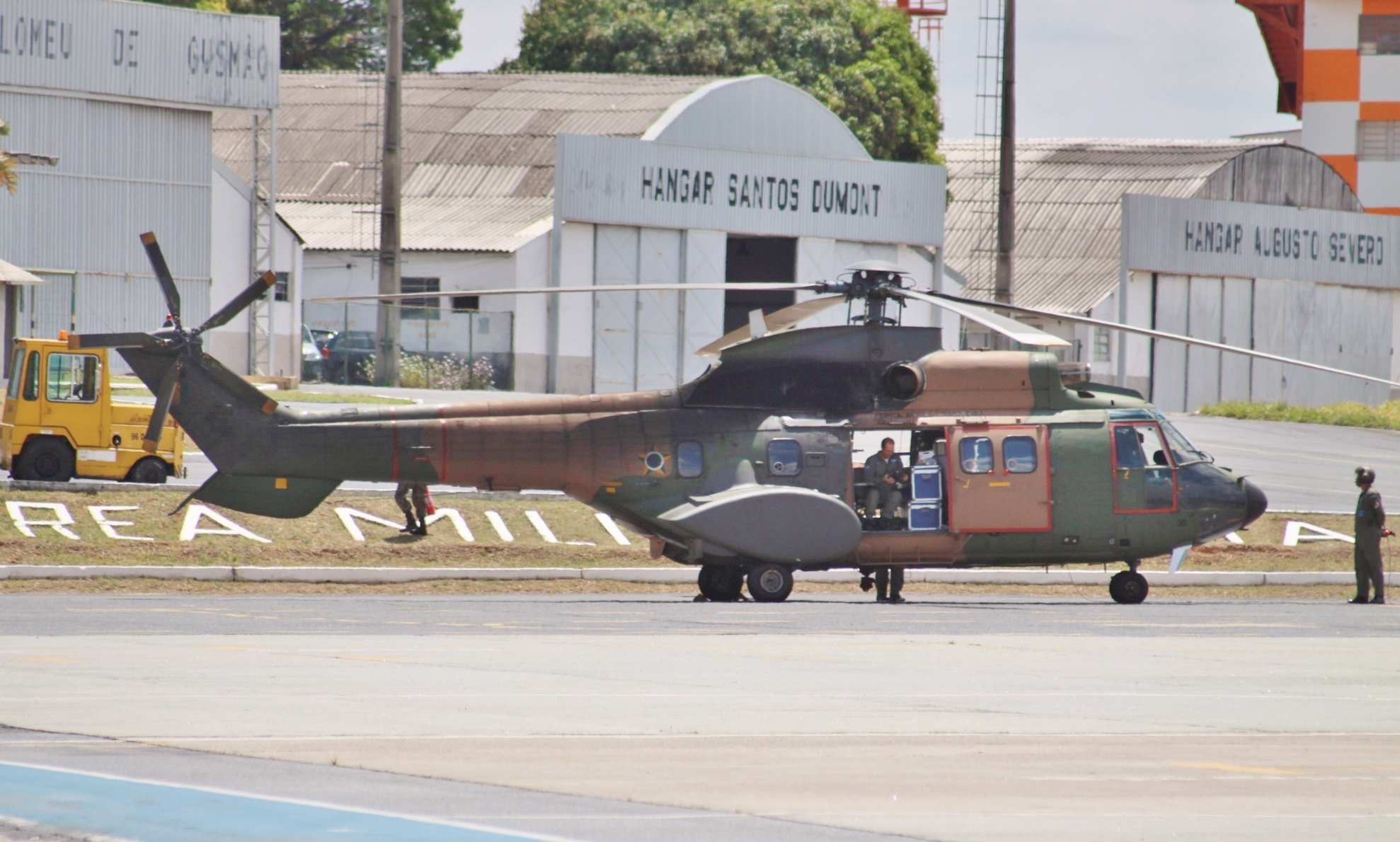 At Belo Horizonte Pampulha